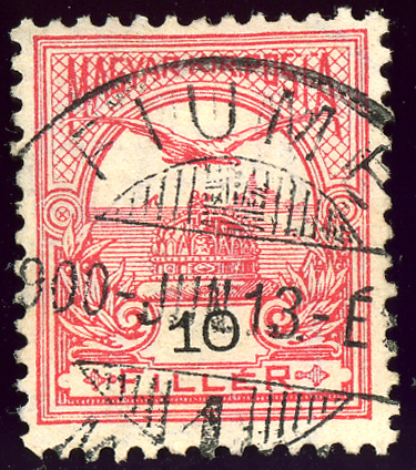 Kingdom of Hungary issue 1900 stamp, 10 fillér rose (SG110), cancelled FIUME in 1900 (Rijeka, Croatia-Slavonia).